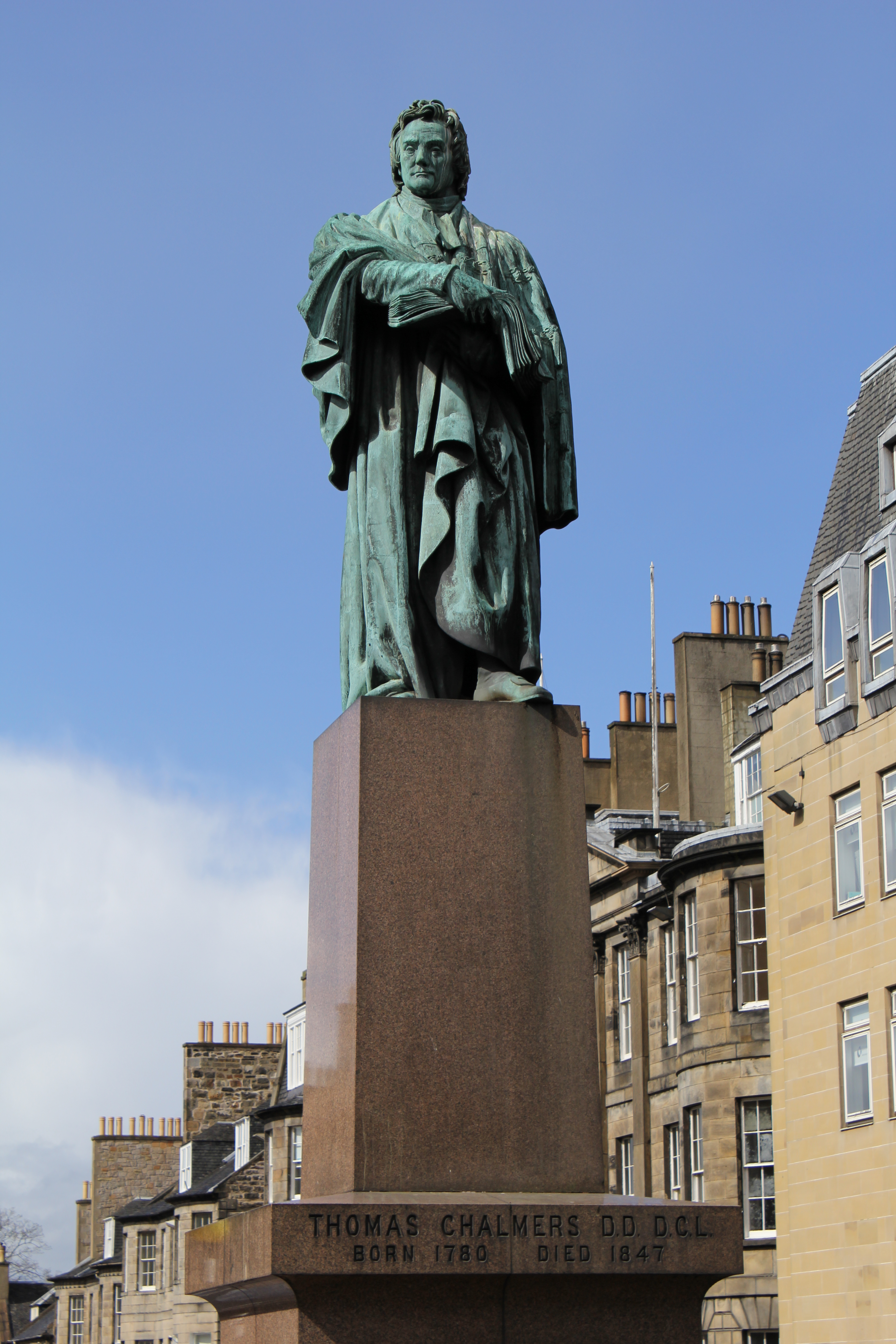 Statue of Thomas Chalmers D.D. D.C.L., Born 1780, Died 1847.